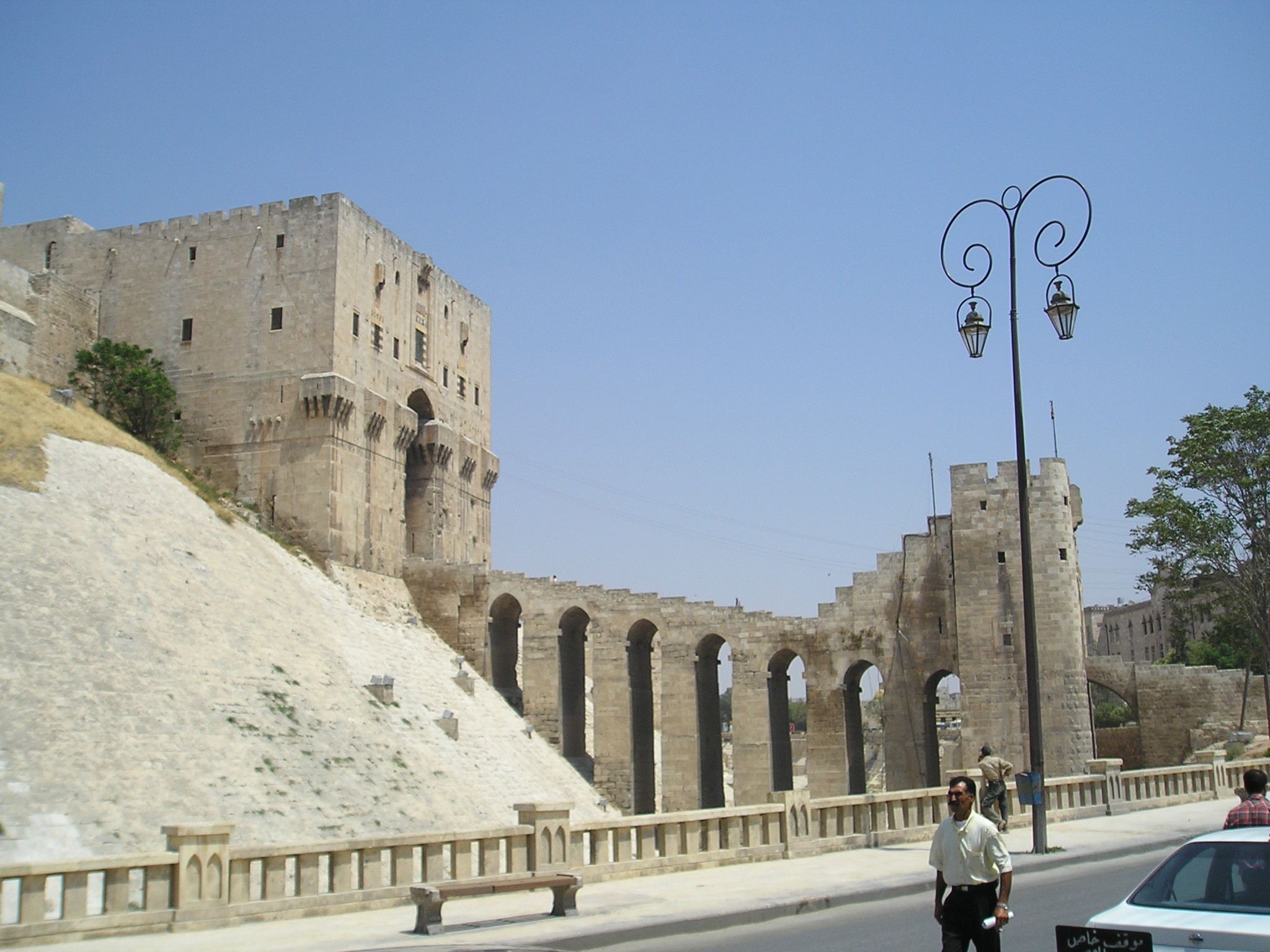 Aleppo, Syria - entry into the citadel